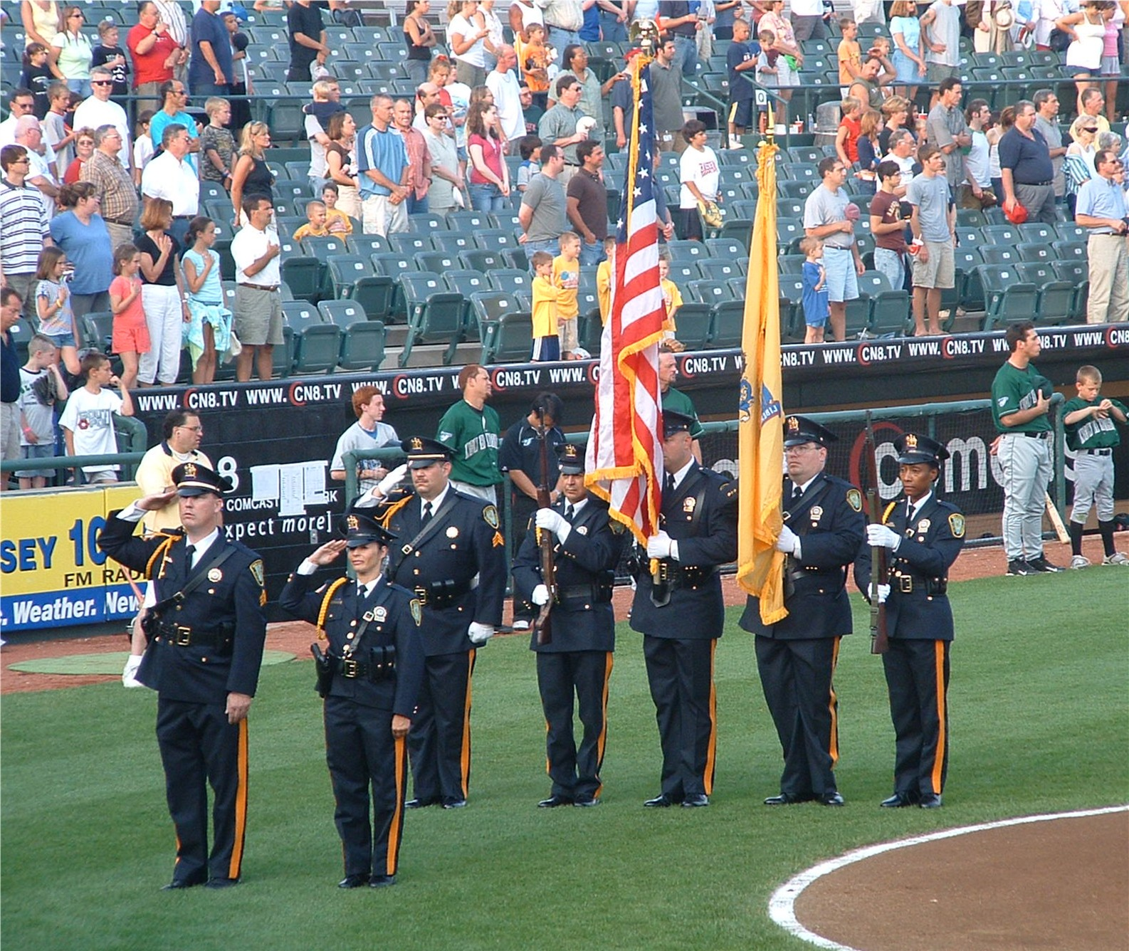 Colors_for_Baseball